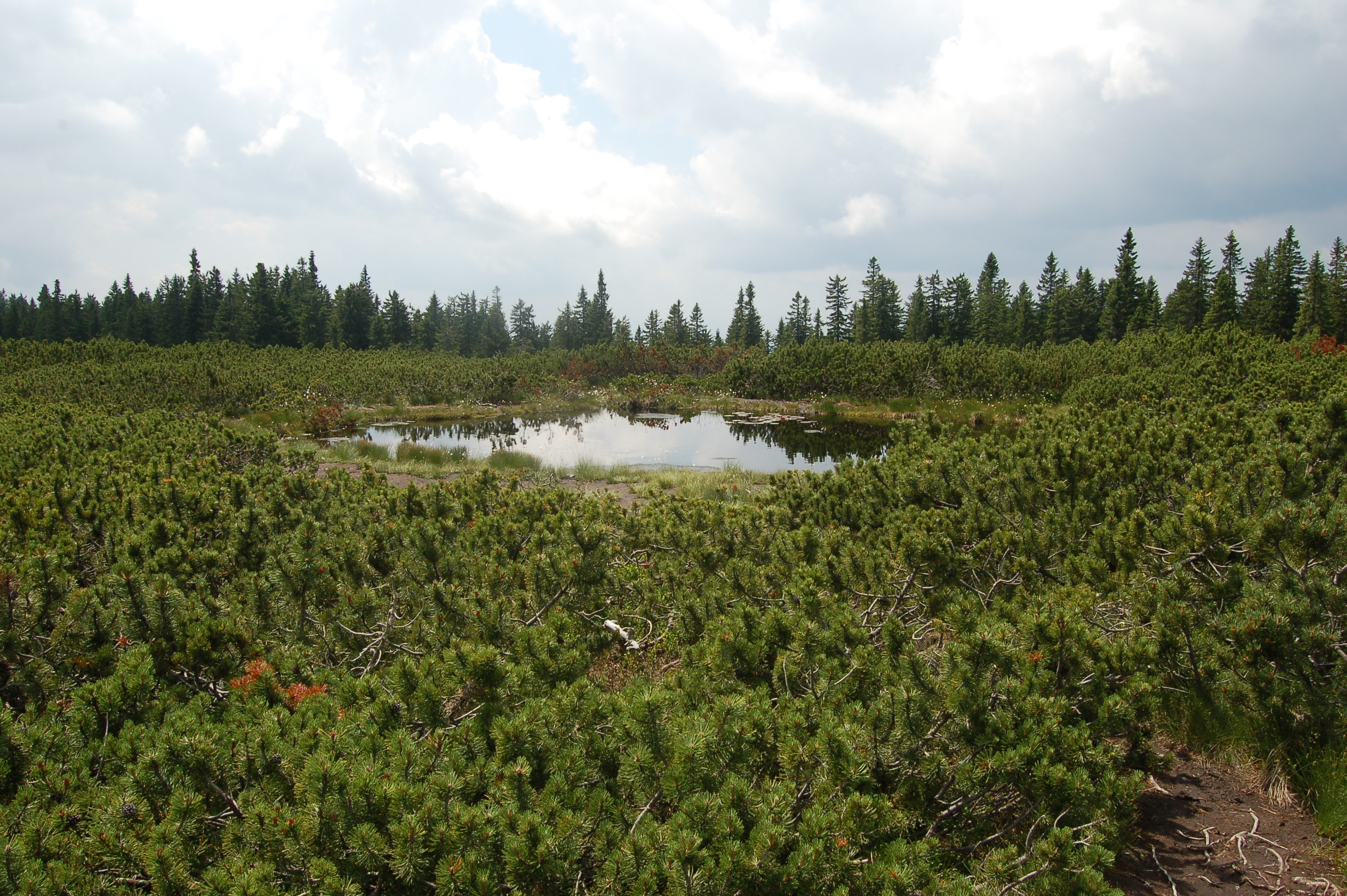 Lovrenc lakes (Pohorje, Slovenia) in the beginning of may.